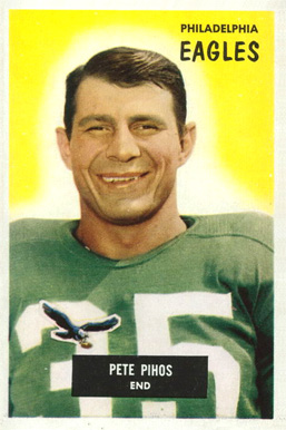 Here is a 1955 Bowman Football card of card number #10 Pete Pihos of the Philadelphia Eagles. Card is in public domain, pd-not-renewed.